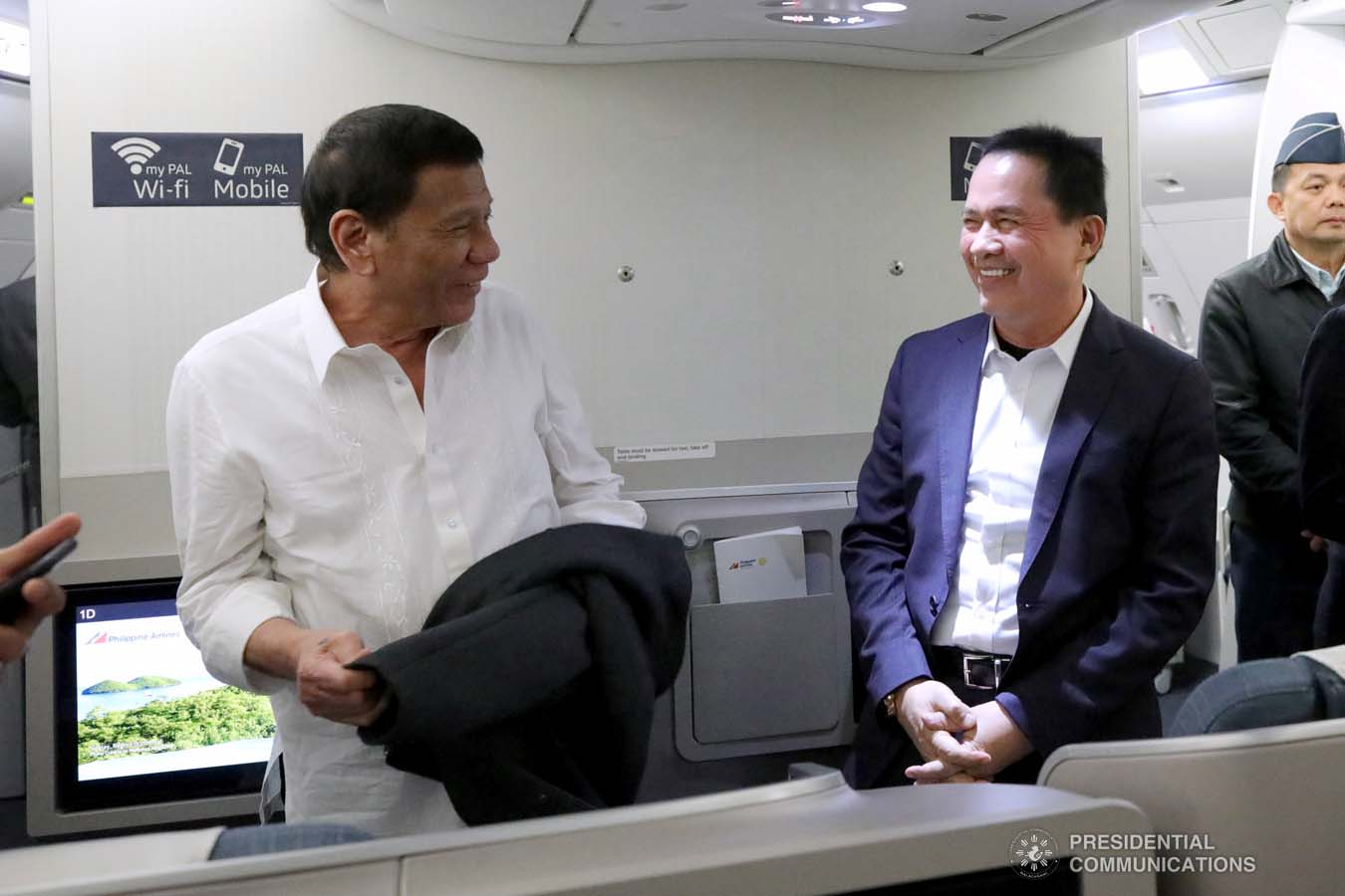 President Rodrigo Roa Duterte shares a light moment with the Kingdom of Jesus Christ, The Name Above Every Name Founder and Executive Pastor Apollo Quiboloy while on board a plane bound for Davao City on October 5, 2019. KING RODRIGUEZ/PRESIDENTIAL PHOTO